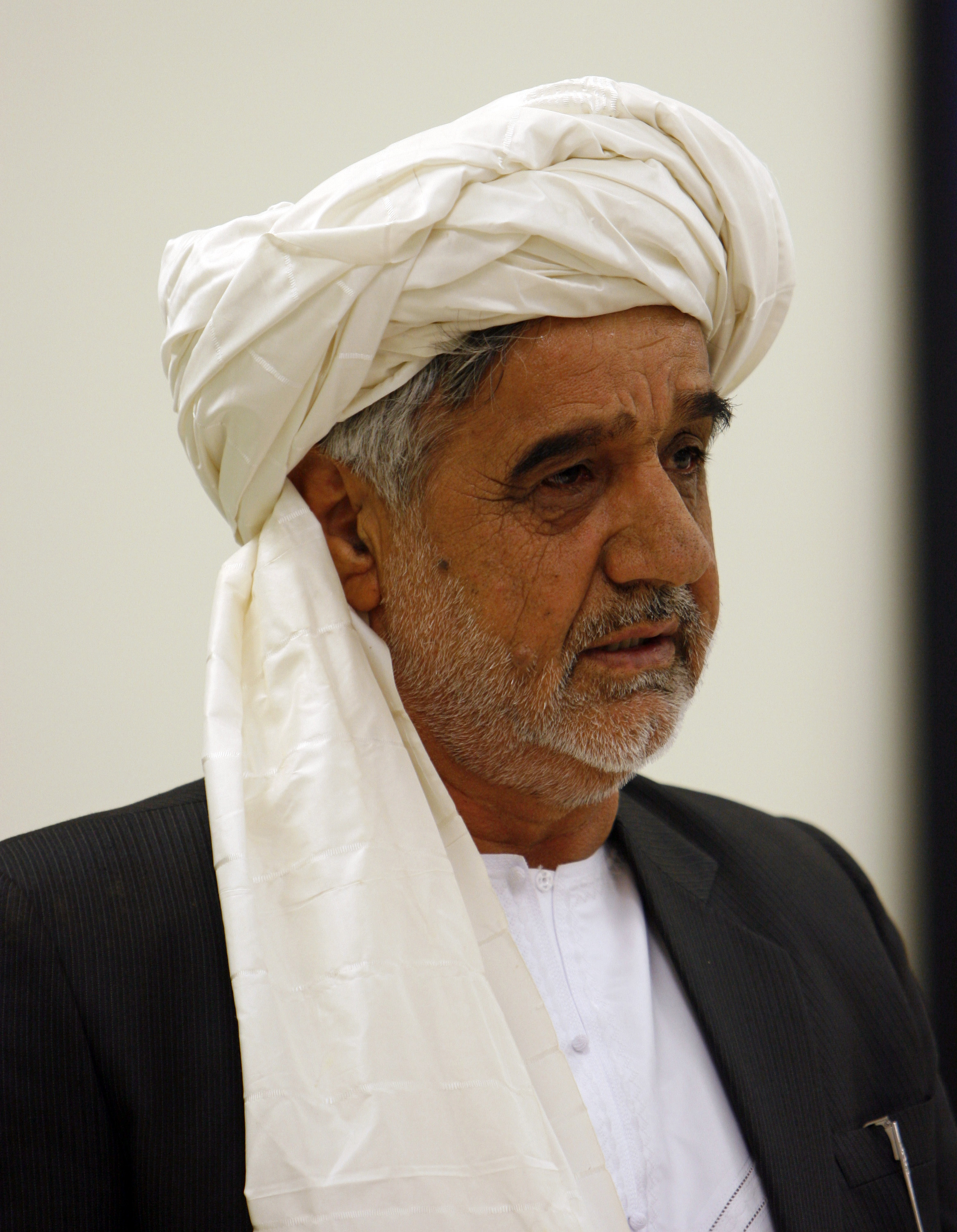 Nimroz Provincial governor Abdul Karim Barahawi. Senior Nimroz Provincial, district government, military, and police officials met together at FOB Delaram for the first time July 27 to discuss their current concerns and plan how to resolve future challenges facing the province.